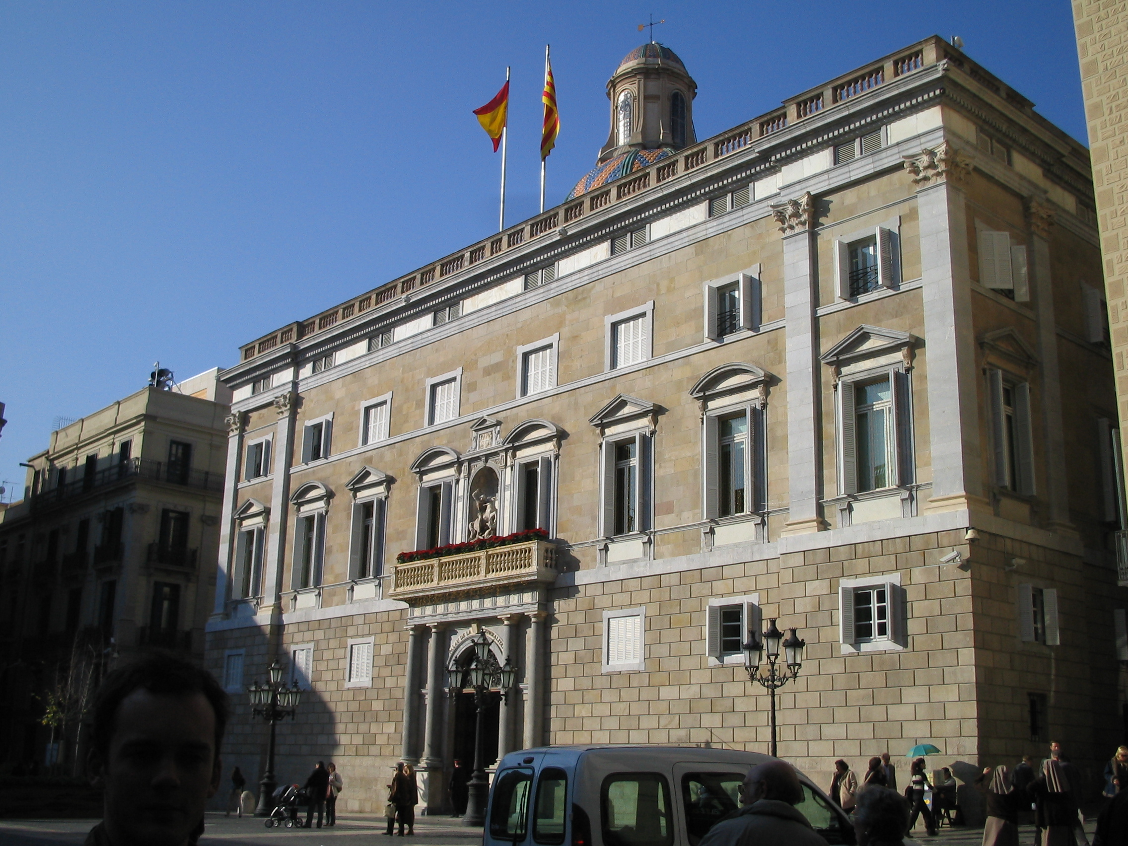 Generalitat's Palace, Catalonia Government site.